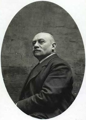 Arne Einar Christiansen (1861-1939), Danish journalist, playwright, critic, theatre manager, novelist, editor etc.